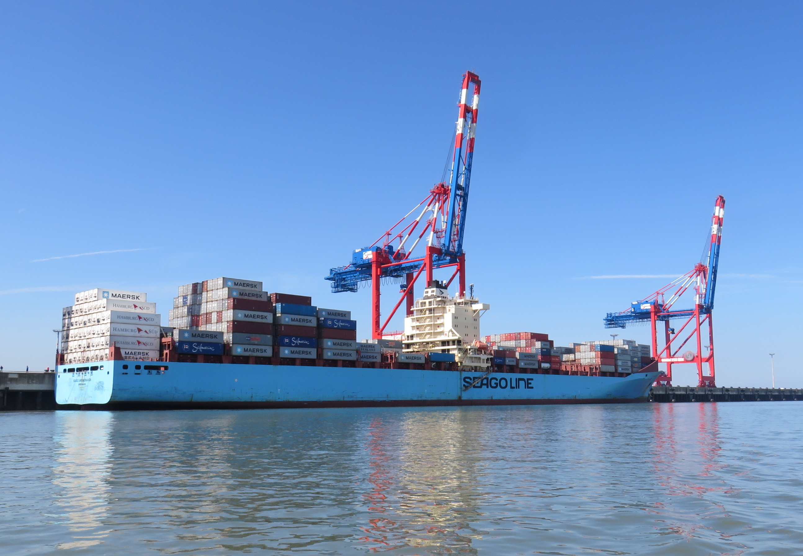 Container ship Seago Bremerhaven moored at JadeWeserPort